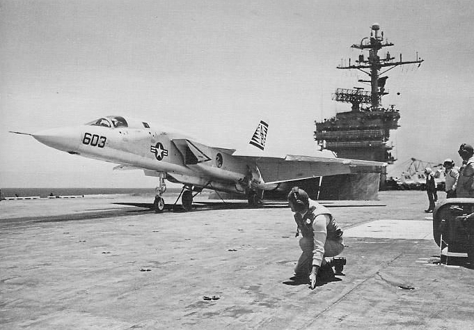 A U.S. Navy North American RA-5C Vigilante (BuNo 151631) from Reconnaissance Heavy Attack Squadron RVAH-14 Eagle Eyes about to launch from the aircraft carrier USS John F. Kennedy (CVA-67). RVAH-14 was assigned to Carrier Air Wing 1 (CVW-1) aboard JFK for a deployment to the Mediterranean Sea from 14 September 1970 to 1 March 1971.